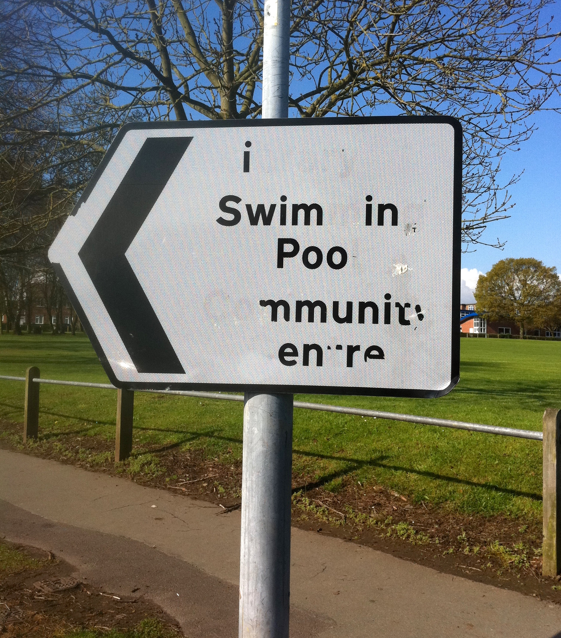 A Swimming Pool in Obvious Need of Sanitation